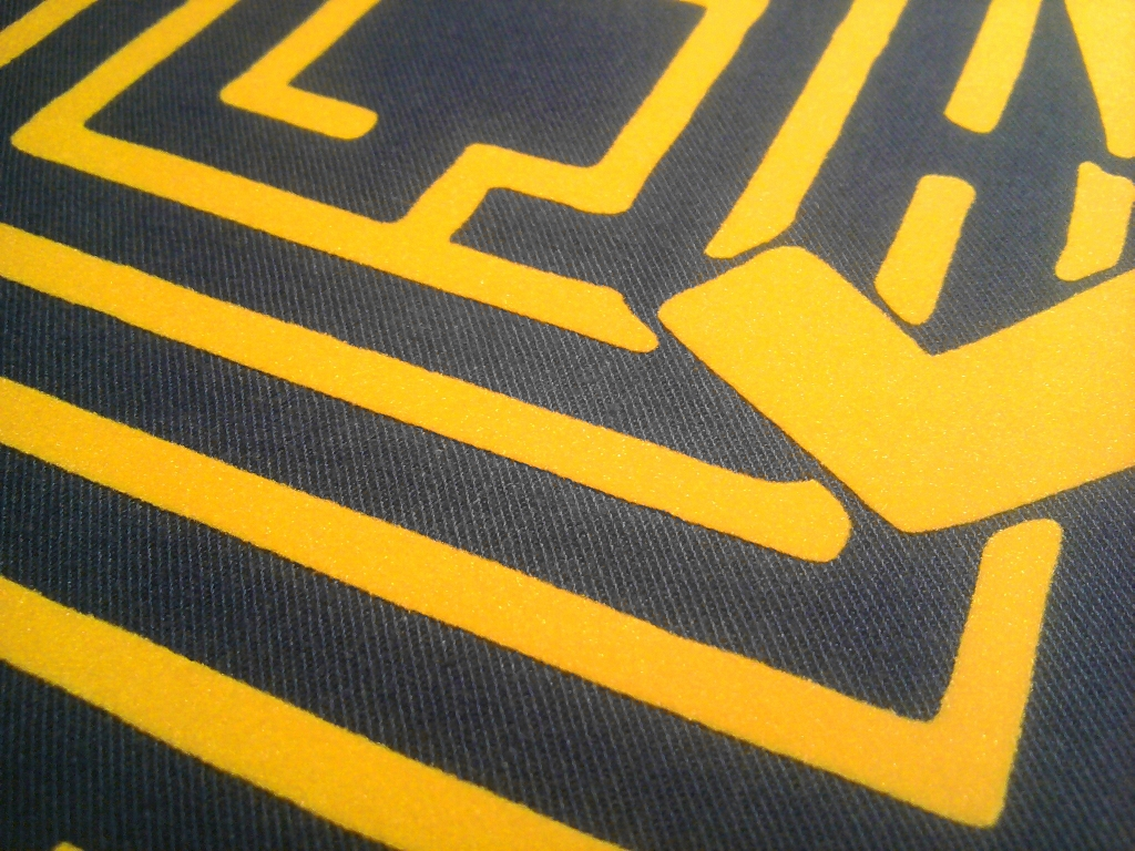 Cotton fabric with a (golden yellow) flock-foil printing. This closeup view is supposed to depict the velvety surface of flock-foils.